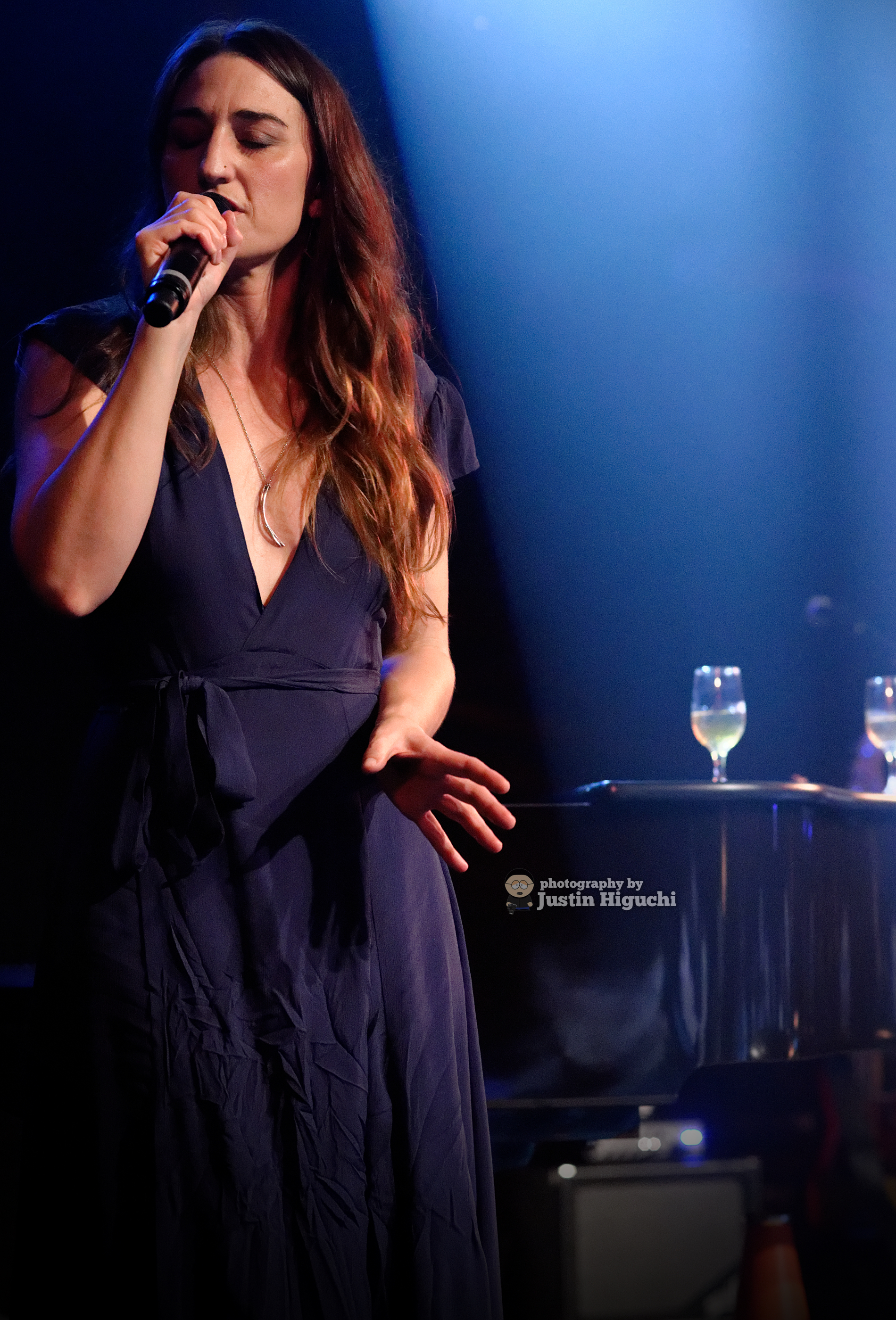 Sara Bareilles performing live at The Troubadour in Los Angeles California on Tuesday October 13th, 2015. This show was a performance and interview to promote Sara's new book "Sounds Like Me: My Life (so far) in Song".